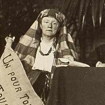 WILPF/2011/18 left to right:1. Lucy Thoumaian - Armenia, 2. Leopoldine Kulka, 3. Laura Hughes - Canada, 4. Rosika Schwimmer - Hungary, 5. Anika Augspurg - Germany, 6. Jane Addams - USA, 7. Eugenie Hanner, 8. Aletta Jacobs - Netherlands, 9. Chrystal Macmillan - UK, 10. Rosa Genoni - Italy, 11. Anna Kleman - Sweden, 12. Thora Daugaard - Denmark, 13. Louise Keilhau - Norway